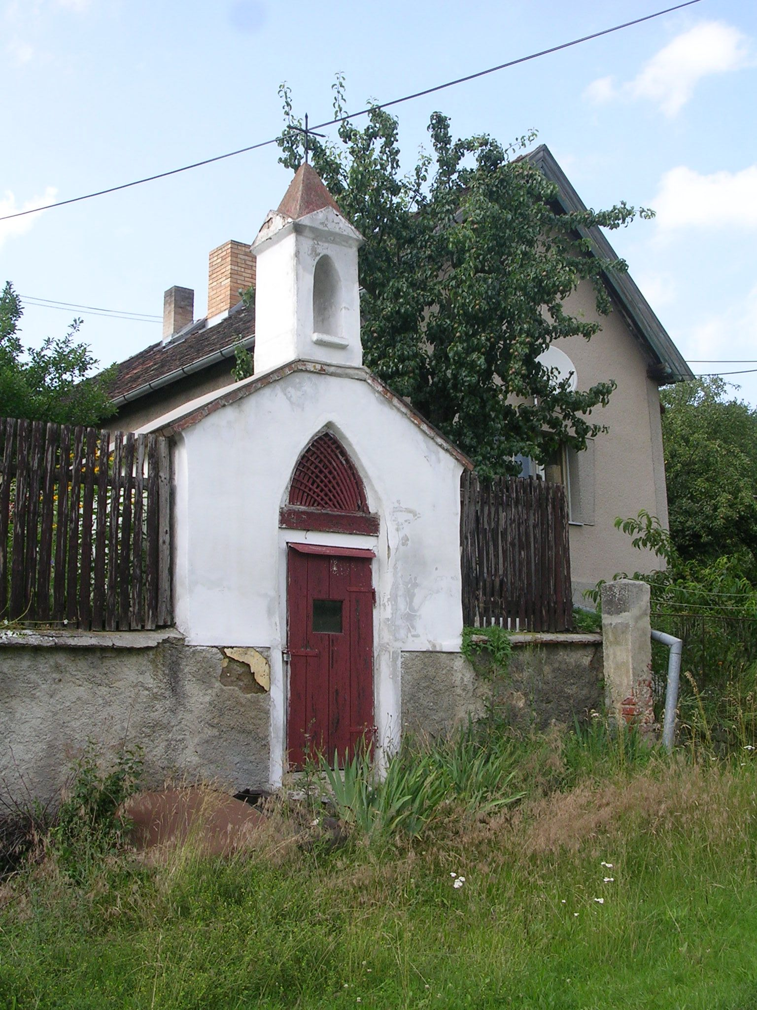 Sedlčany-Štileček, Příbram District, Central Bohemian Region, the Czech Republic. - Google Maps - Google Earth